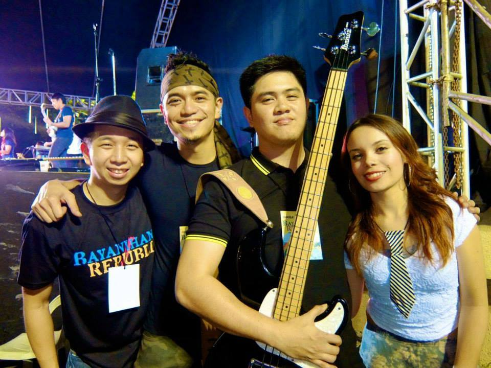 Band picture of Kala doing a benefit show for the victims of super typhoon yolanda/haiyan